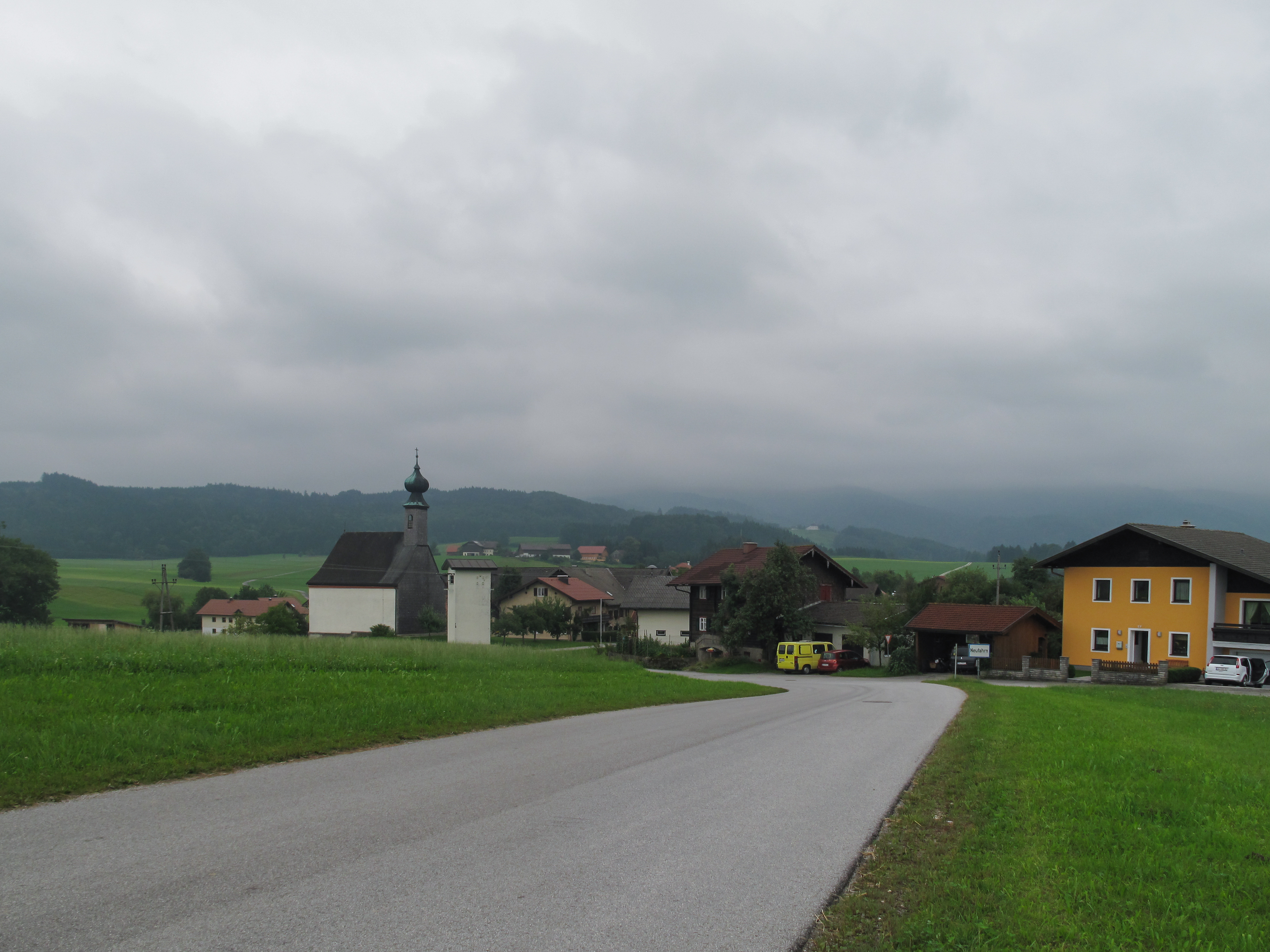 Neufahrn, view to the village